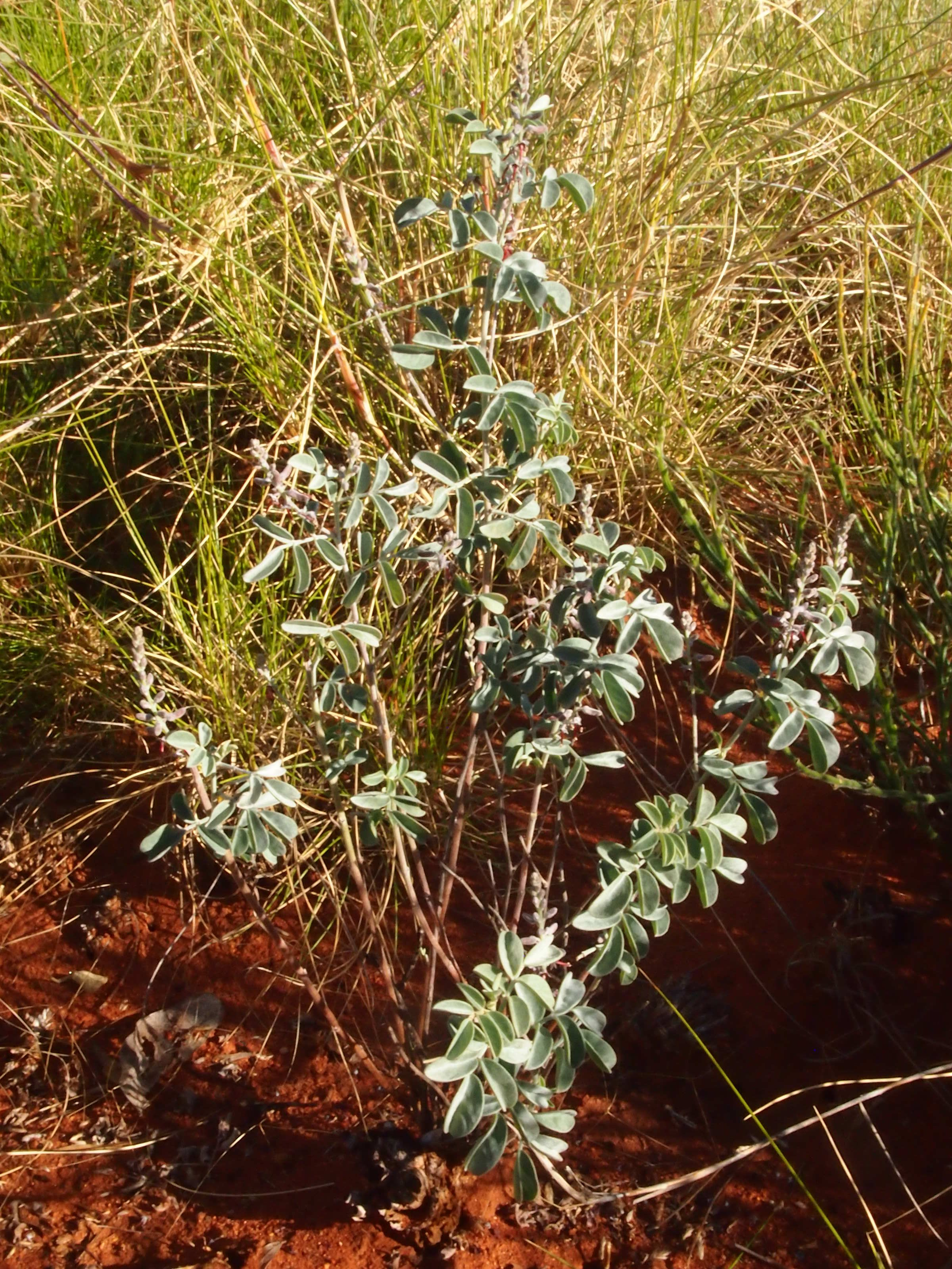 Indigofera psammophila